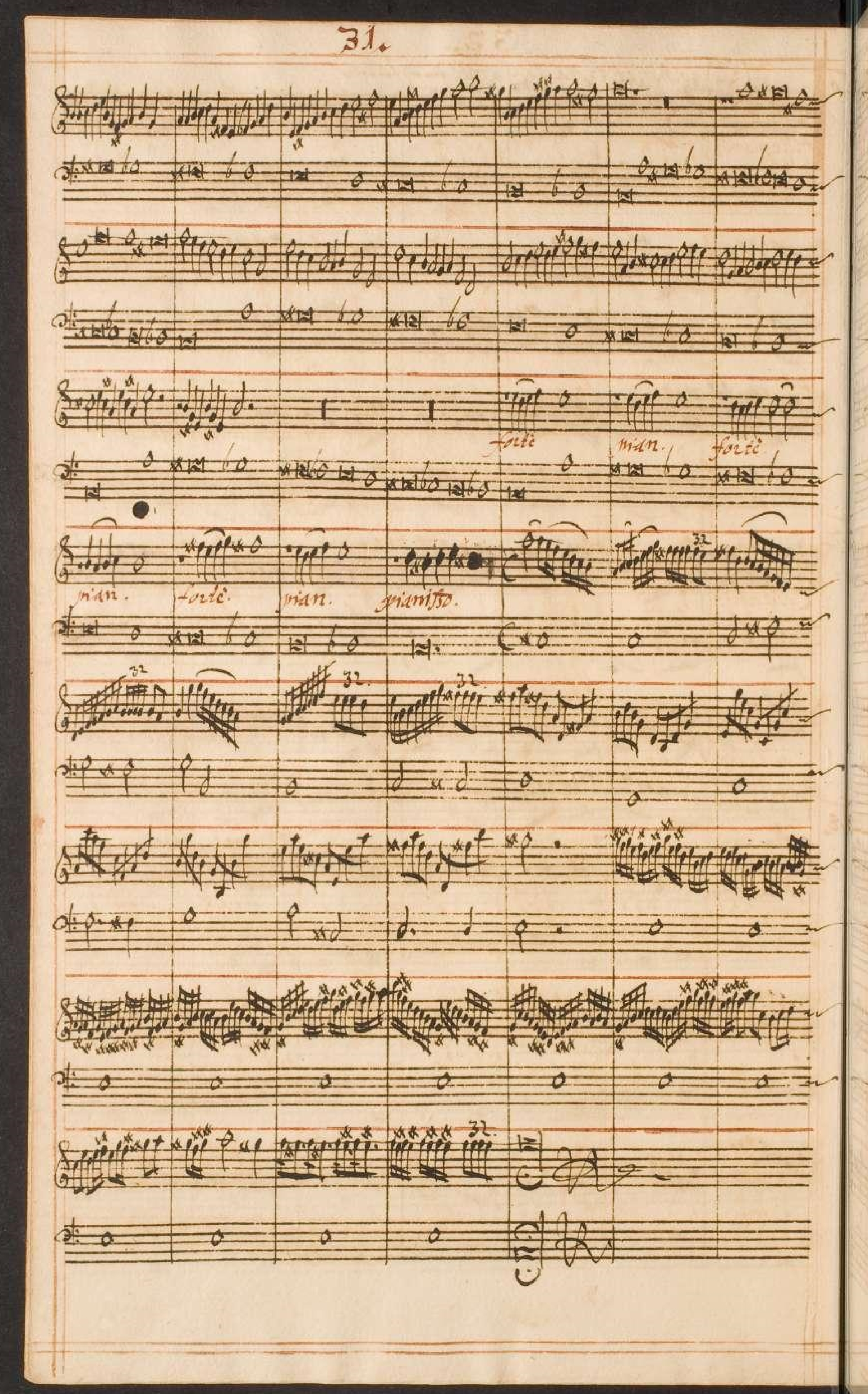 Giovanni Antonio Pandolfi Mealli, Sonata "La Cesta" Op. 3 no. 2, handwritten copy in Partiturbuch Ludwig.